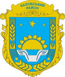 Coat of Arms of Kahovskyj raion